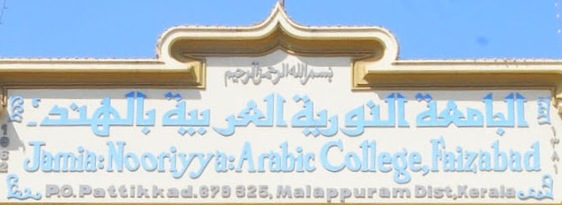 Jami'a Nooriyya Arabiya, Pattikkad